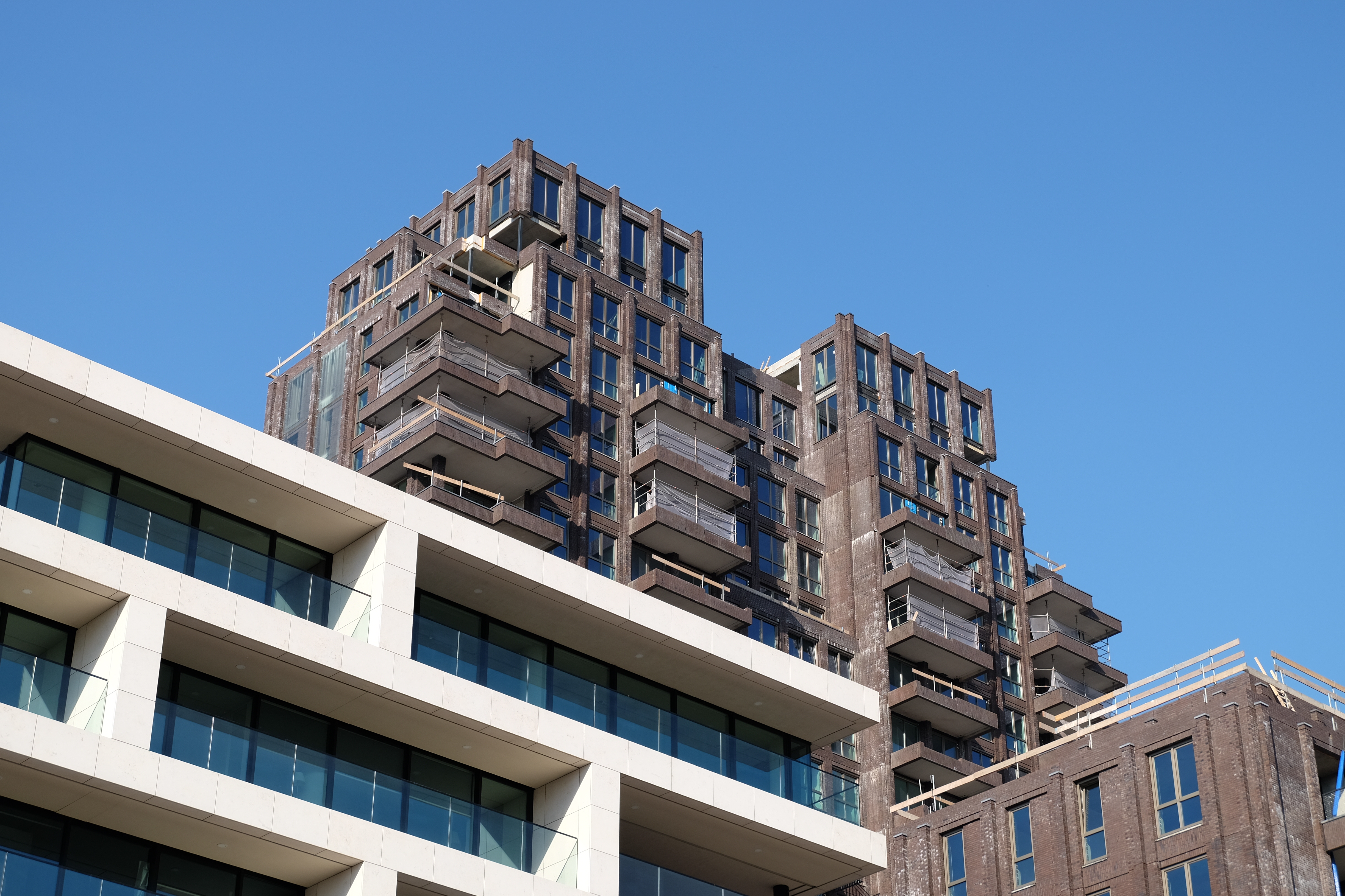 "900 Mahler", a residential building in Amsterdam, the Netherlands, seen from the southwest. At the time of the photograph, it was still under construction.